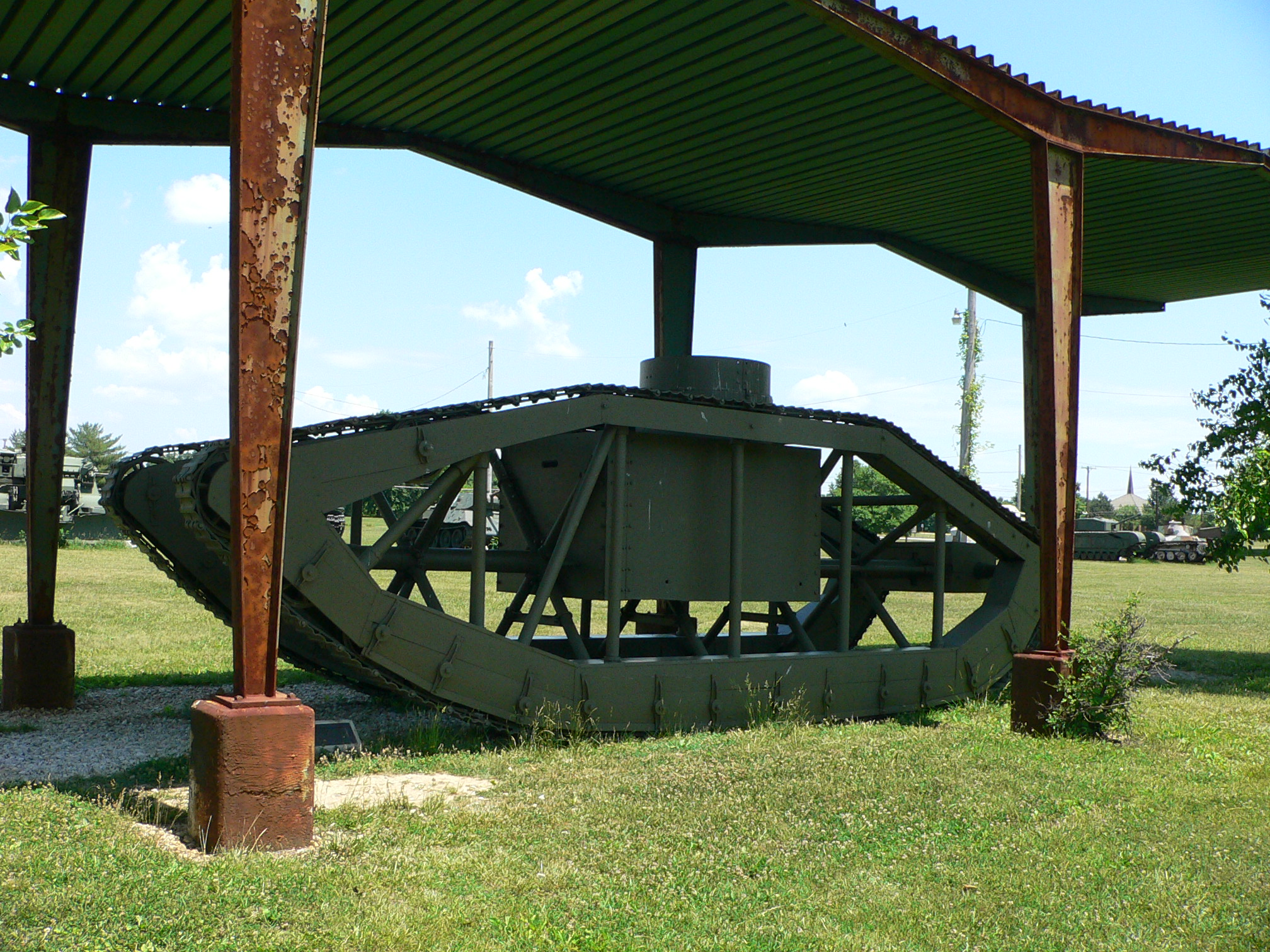 Picture taken by myself, Mark Pellegrini, at the United States Army Ordnance Museum (Aberdeen Proving Ground, MD) on June 12, 2007.